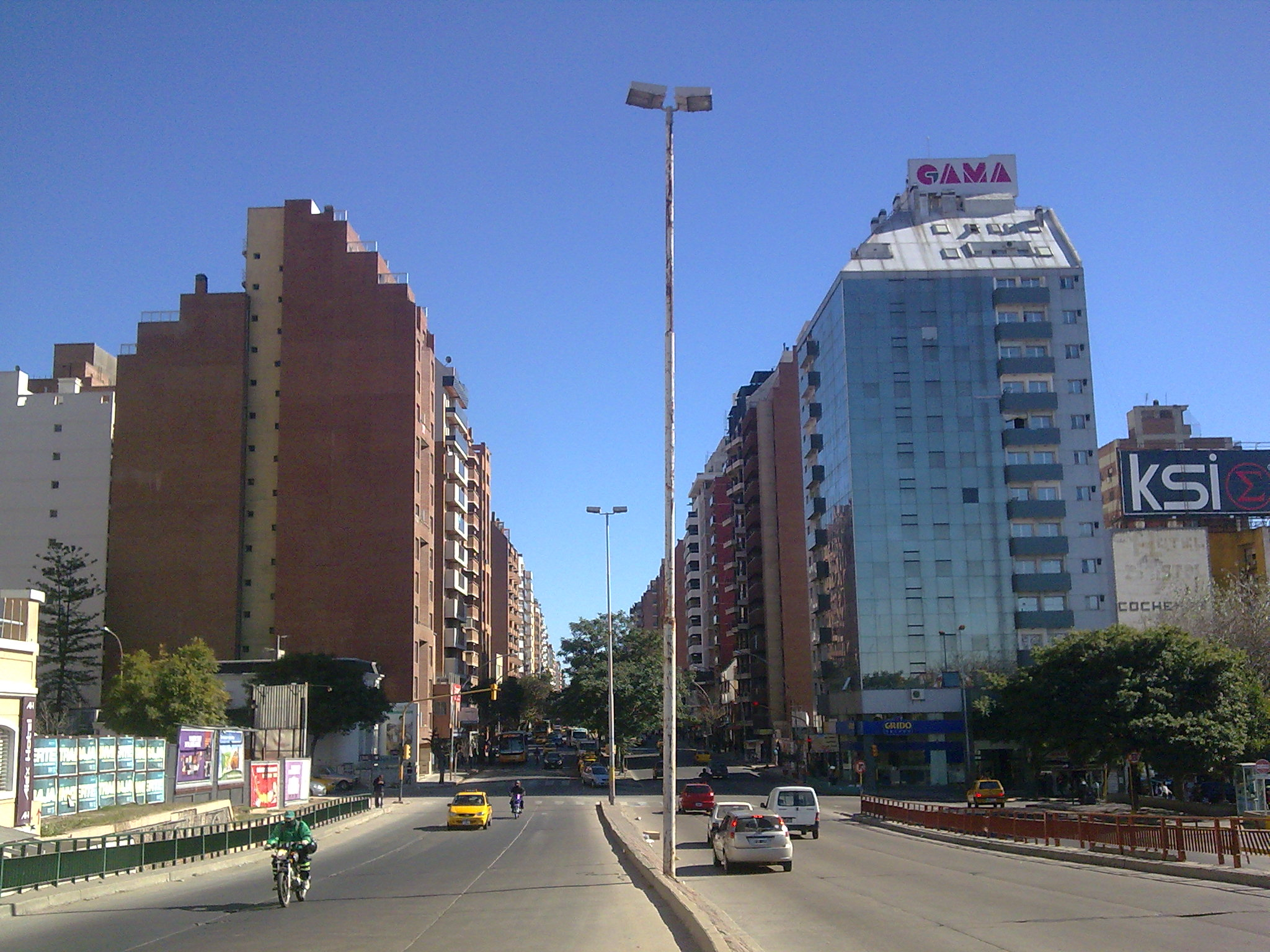 View to the west of Amadeo Sabattini avenue. Cordoba, Argentina.